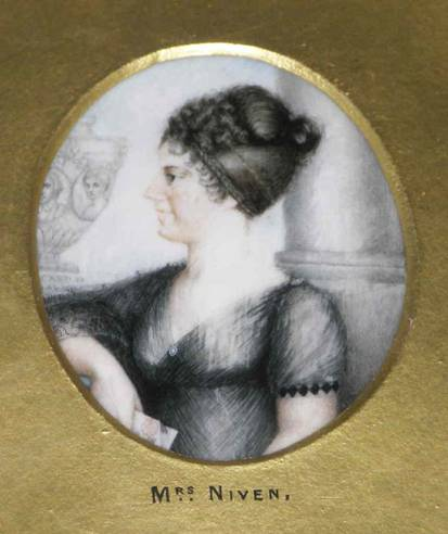 Miniature of Anna Jane Vardill